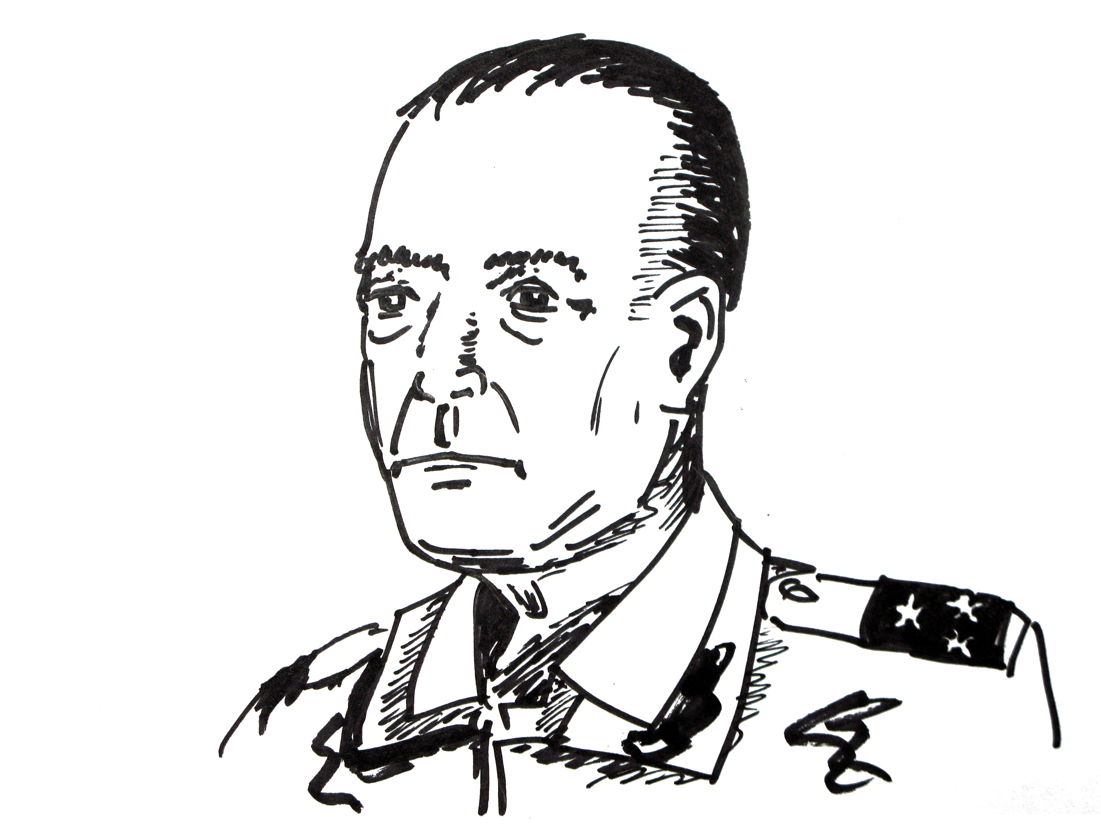 General Raoul Salan